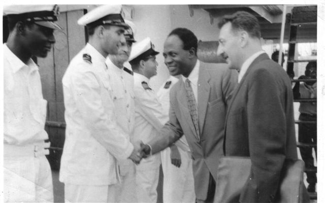 President of Ghana Kwame Nkrumah visiting his first merchant ship wher a ariel is captain